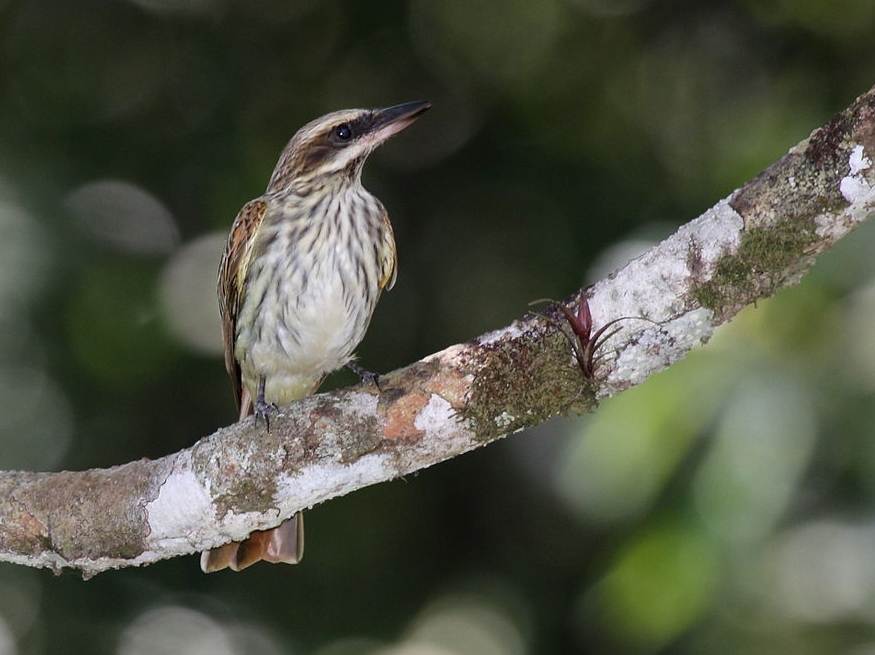 Streaked Flycatcher, near Cerro Azul, Panamá